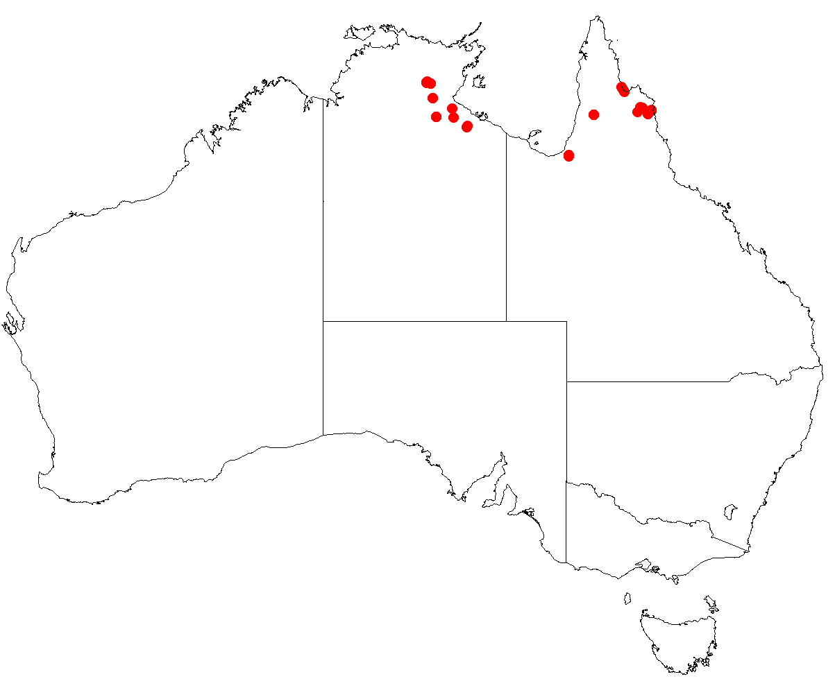 Australian distribution of Amyema herbertiana based on download from Australasian Virtual Herbarium May 9, 2018